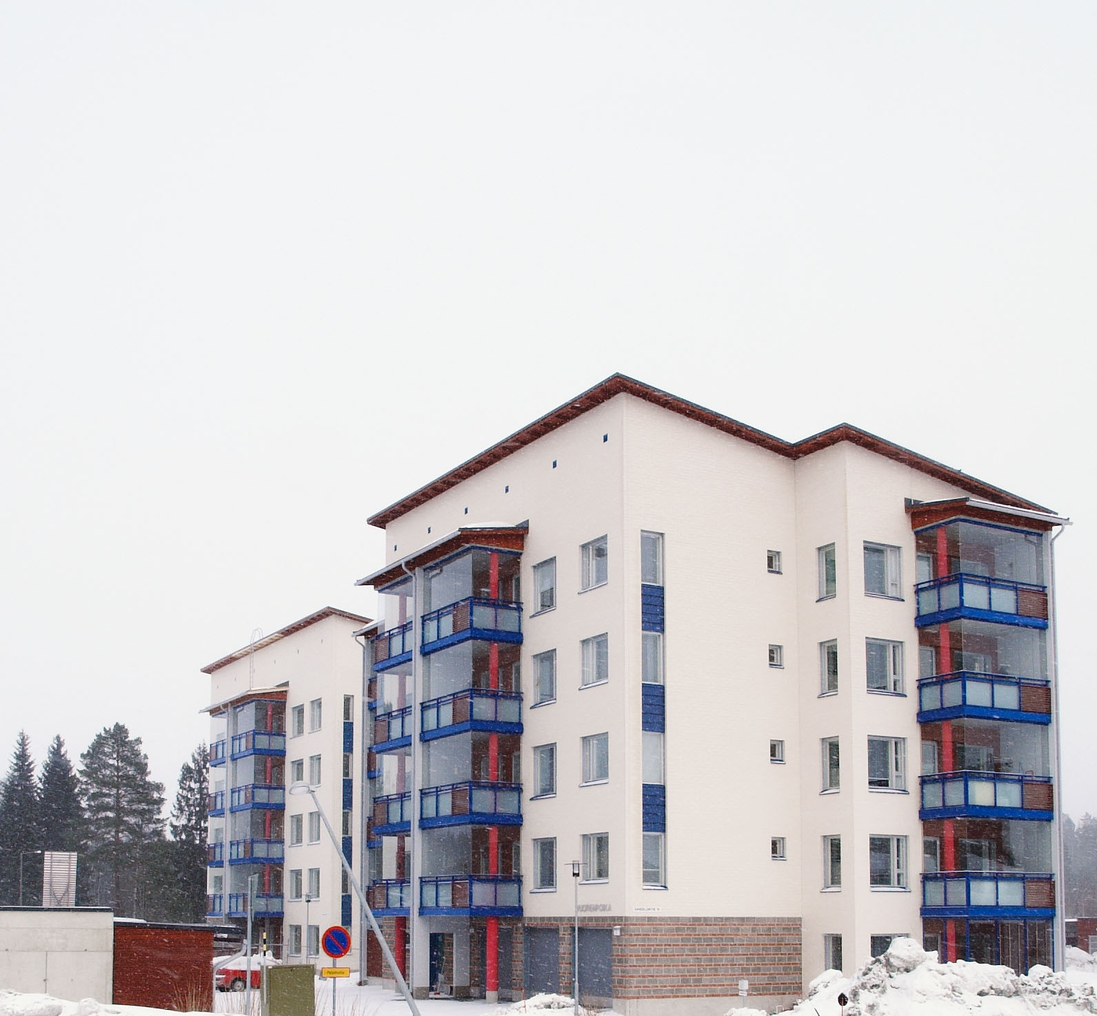 Nearly completed Flats at Sandelsinkatu street in Vuorela, Siilinjärvi, Finland.